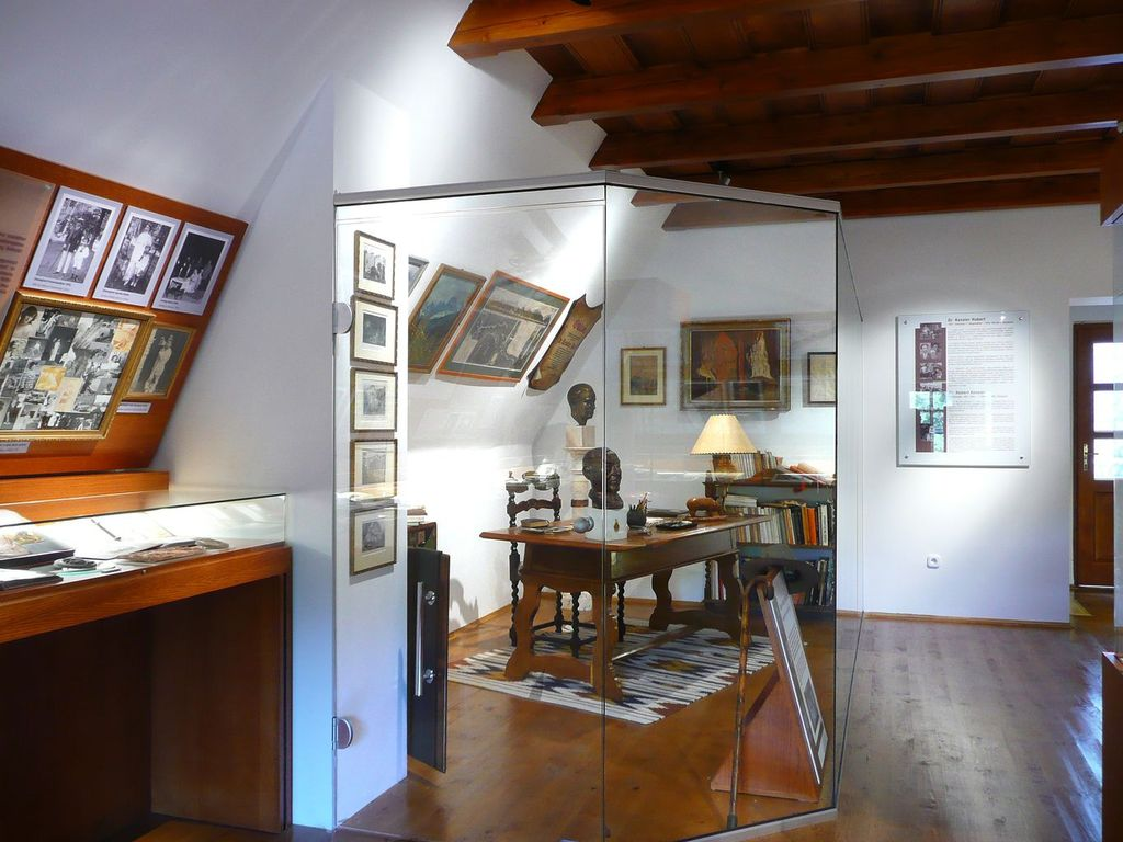 Exhibition detail from Hubert Kessler memorial house (floor), Jósvafő, Hungary